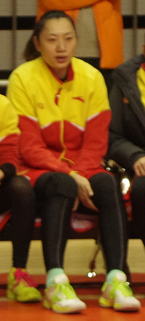 Guan Xin sitting on the bench during a 2014 Women's Chinese Basketball Association game